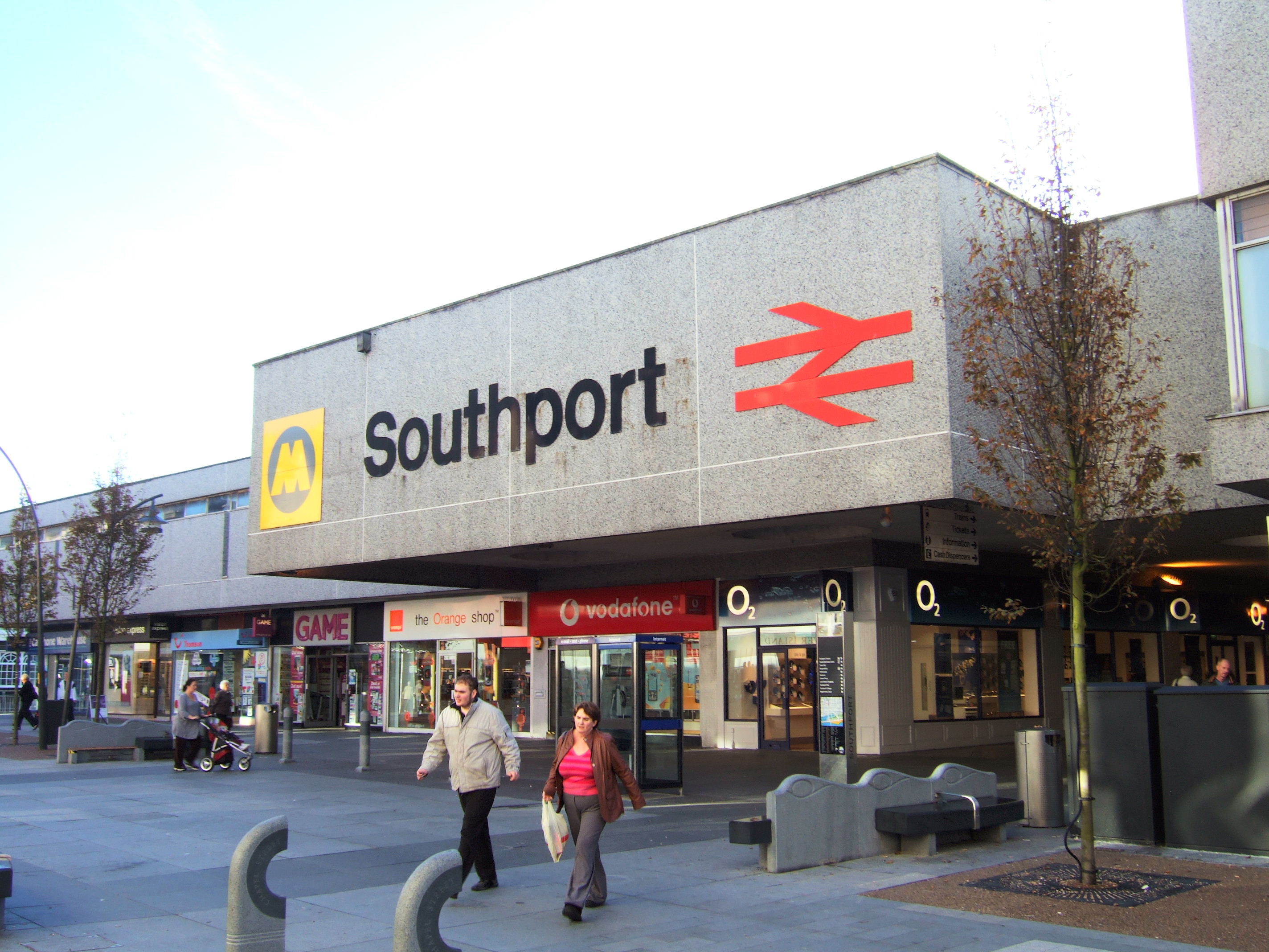 Southport railway station, in Southport, Merseyside, England.